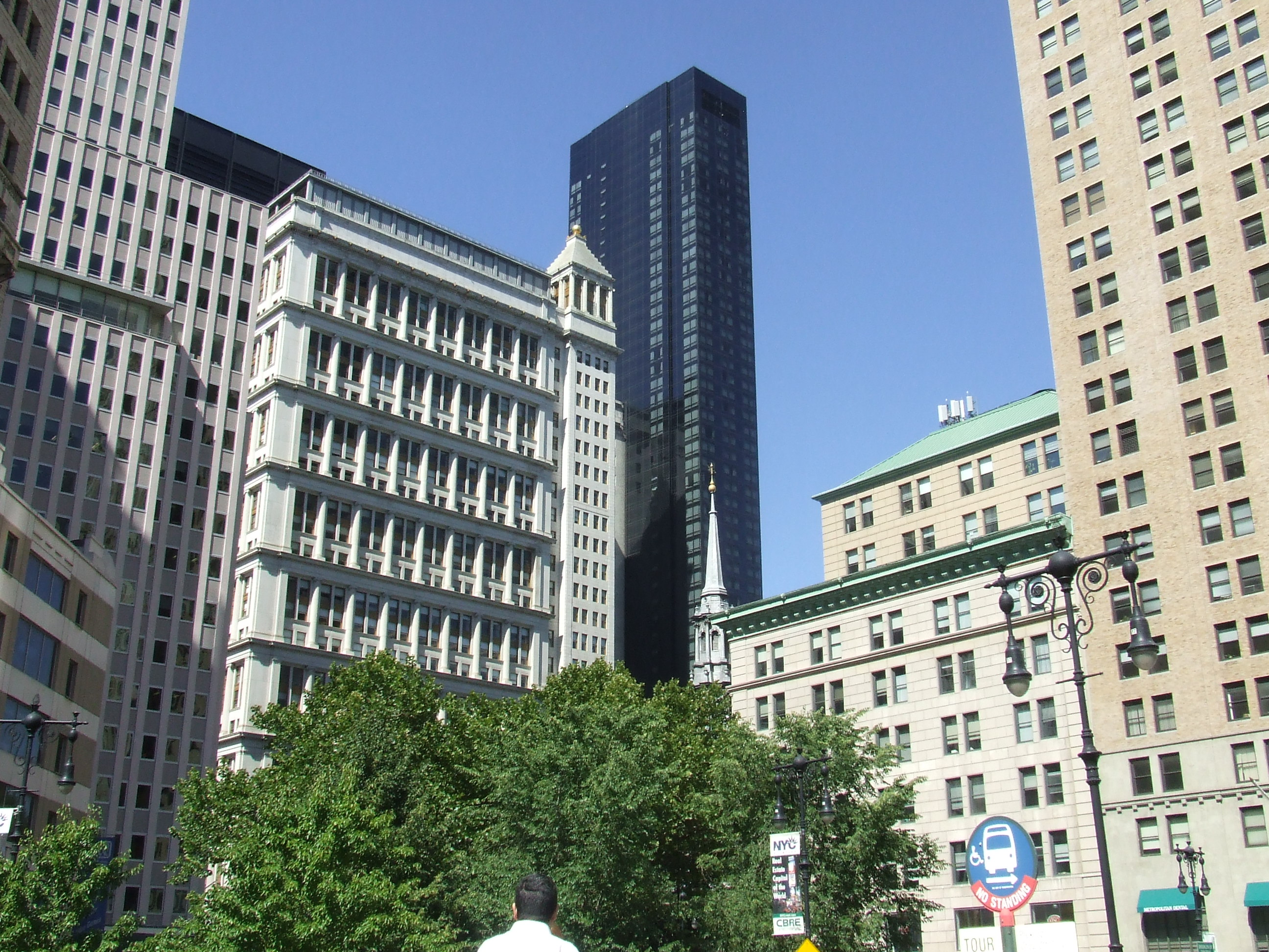 looking southwest from City Hall Park on a sunny summer morning, NYC Detail